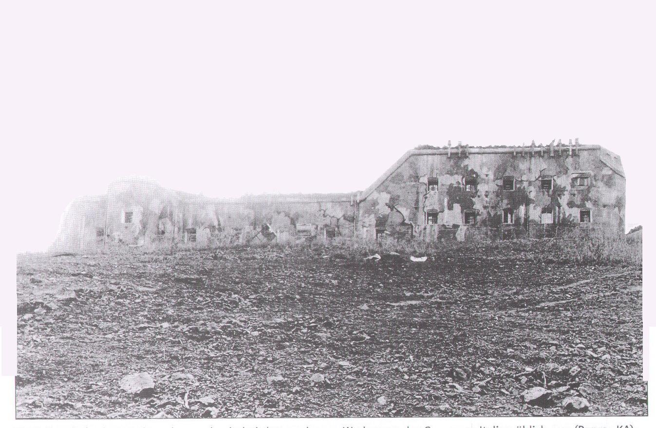 Fort Tonale